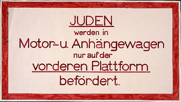 Antisemitic signpost from Karlsruhe (DE), dated c. 1940: Jews were not allowed to travel inside but only on the front platform of a tramcar